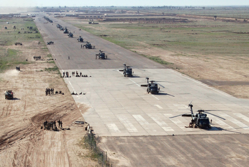 Operation Swarmer begins with the largest air assault operation since Operation Iraqi Freedom